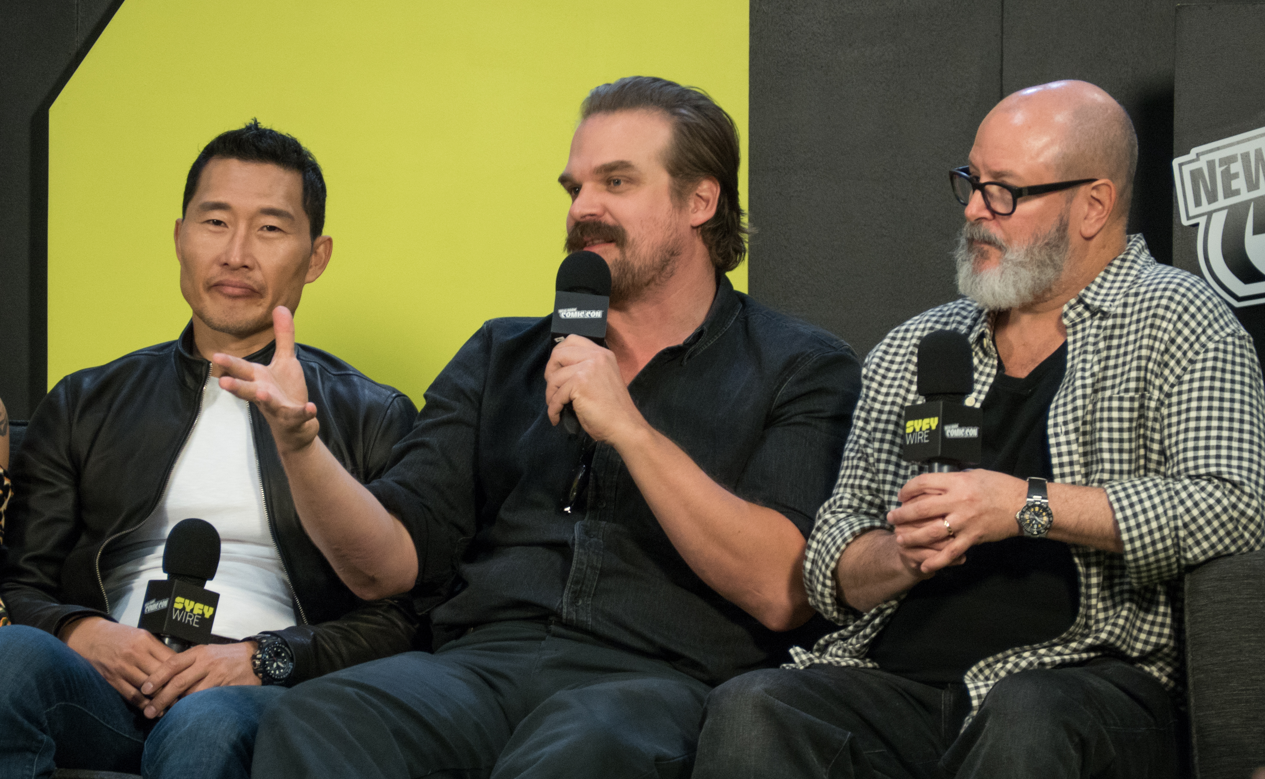 Stars of the 2019 Hellboy movie Daniel Dae Kim and David Harbour with Hellboy creator Mike Mignola at New York Comic Con in October 2018.